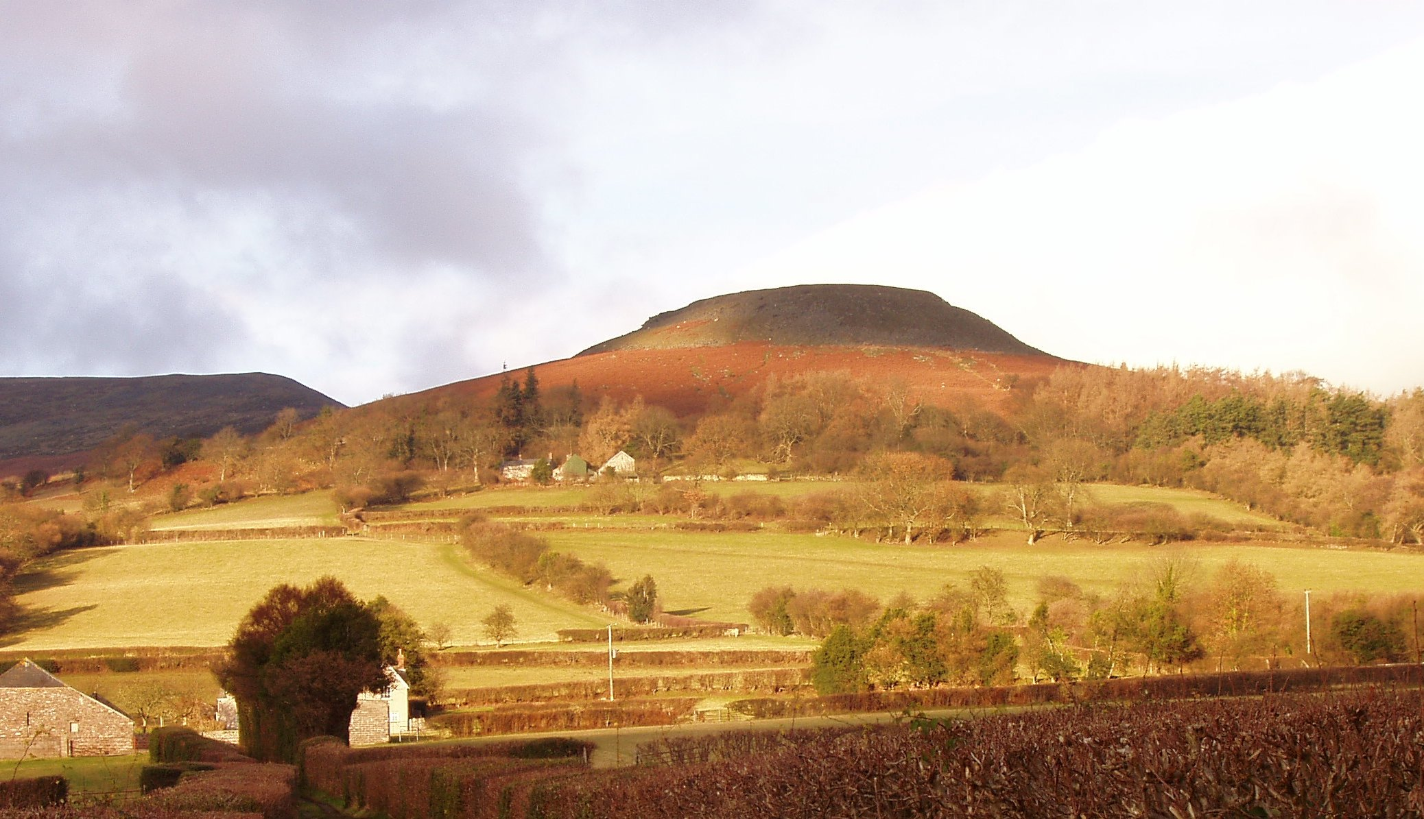 Photo: Hugh McCann